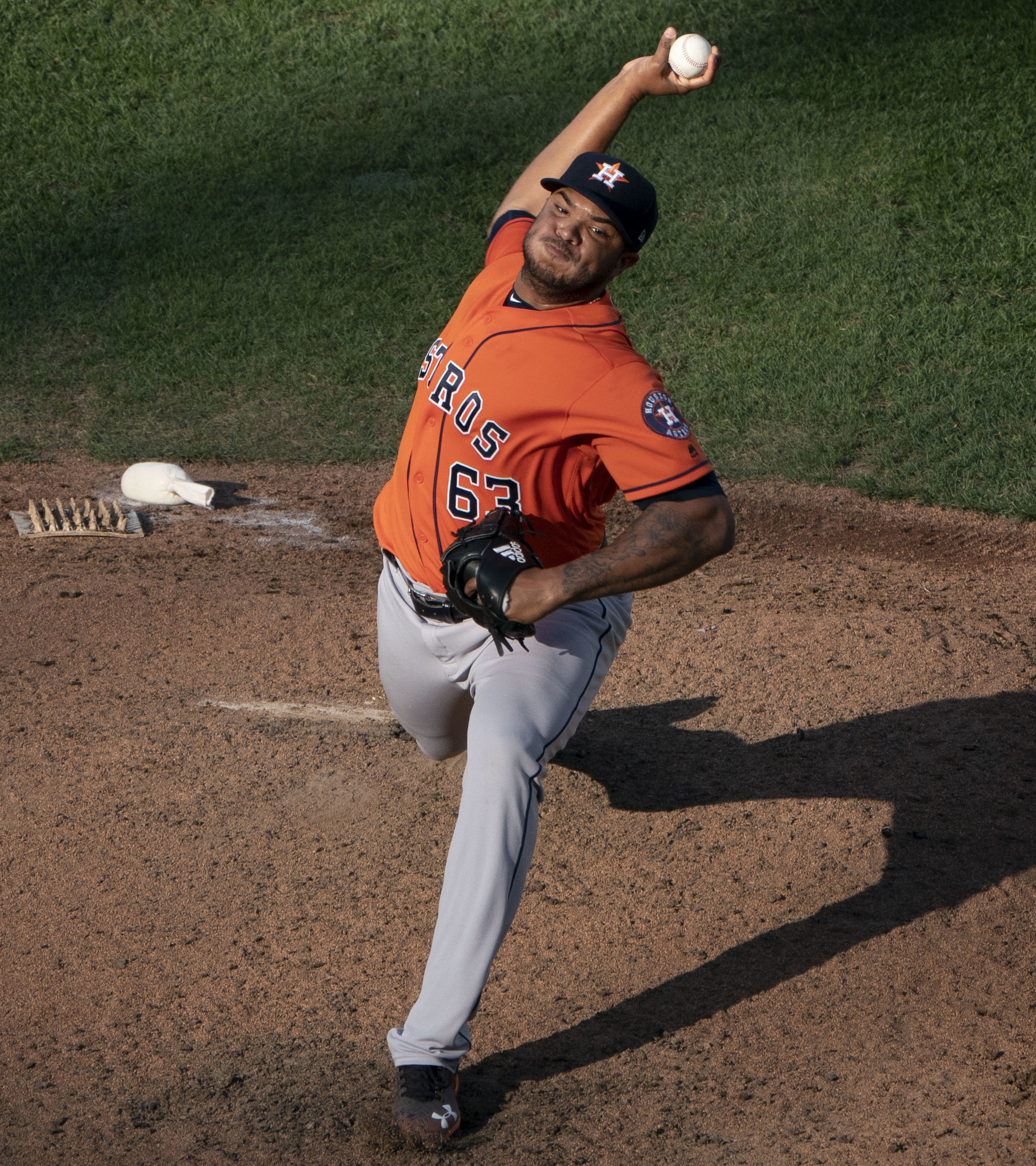 Josh James of the Houston Astros delivers a pitch during a 2018 game against at Camden Yards in Baltimore.